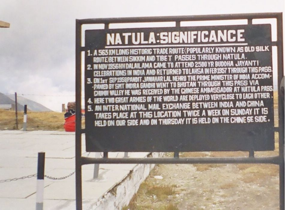 Notice Board explaining significance of Nathu La